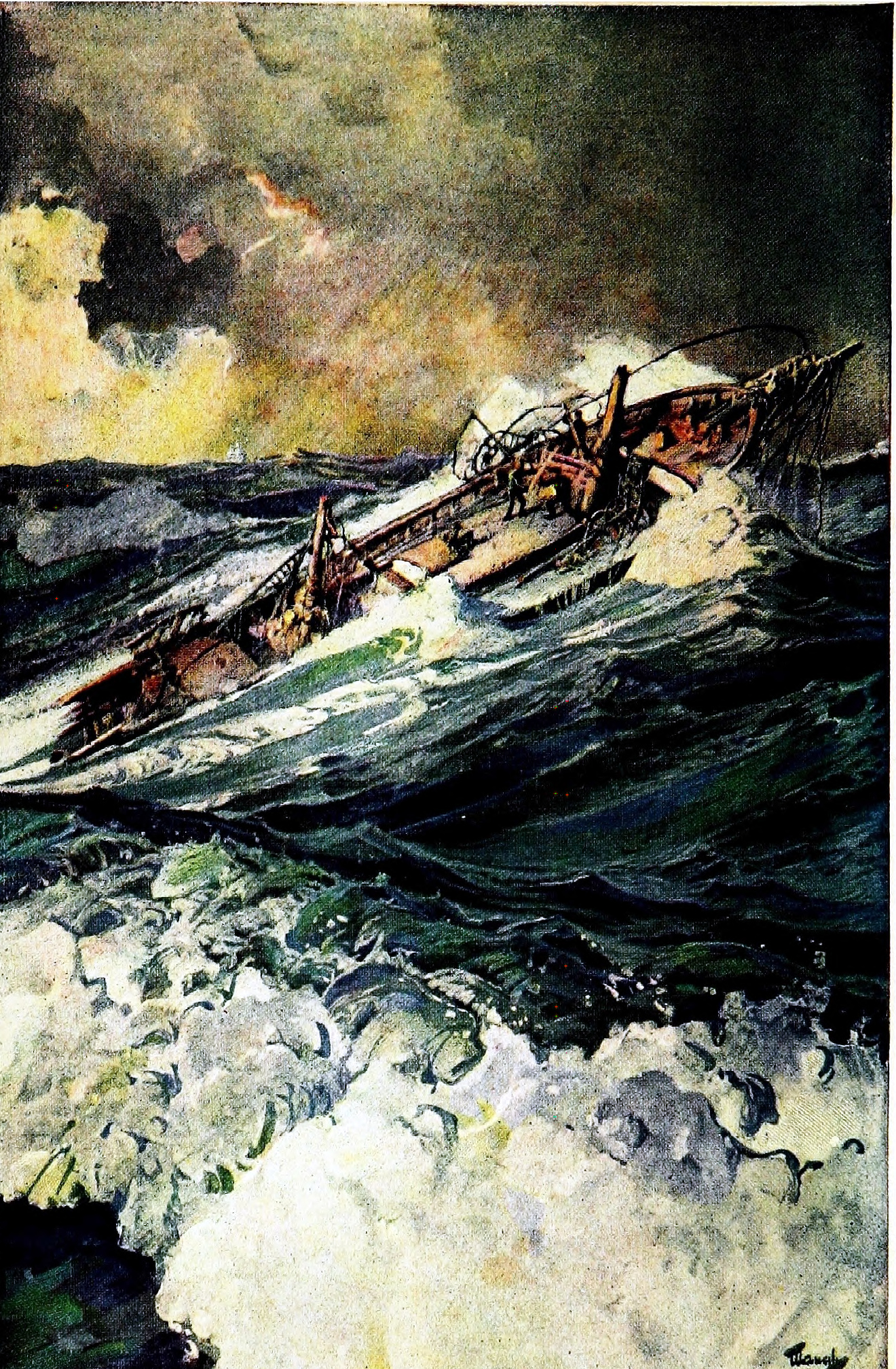 Frontispiece from scan of the book Lonely ships and lonely seas by Ralph Paine. Illus by George Avison. Published by The Century co., New York, 1921. (First published as individual true sea-stories in Century magazine between 1920-21.)